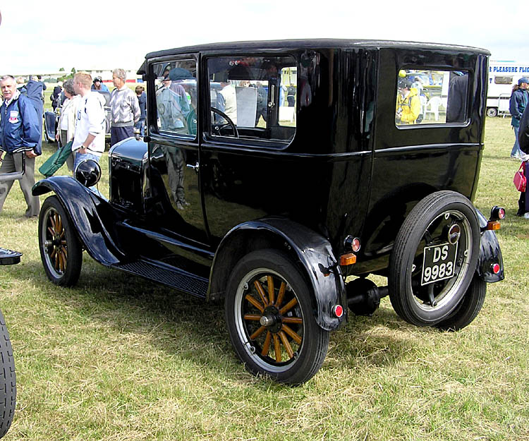 1925 Ford “New Model” T, Tudor Sedan, 2892cc engine, at a car show at Kemble Airfield, Kemble, Gloucestershire, England. Taken by Adrian Pingstone in July 2004 and released to the public domain.